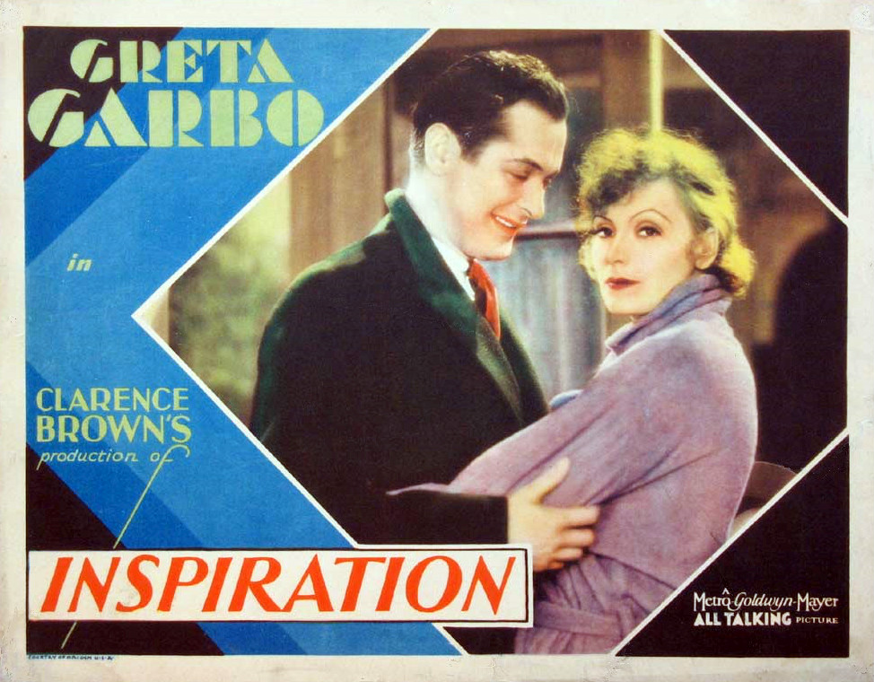 Lobby card for the American film Inspiration (1931).